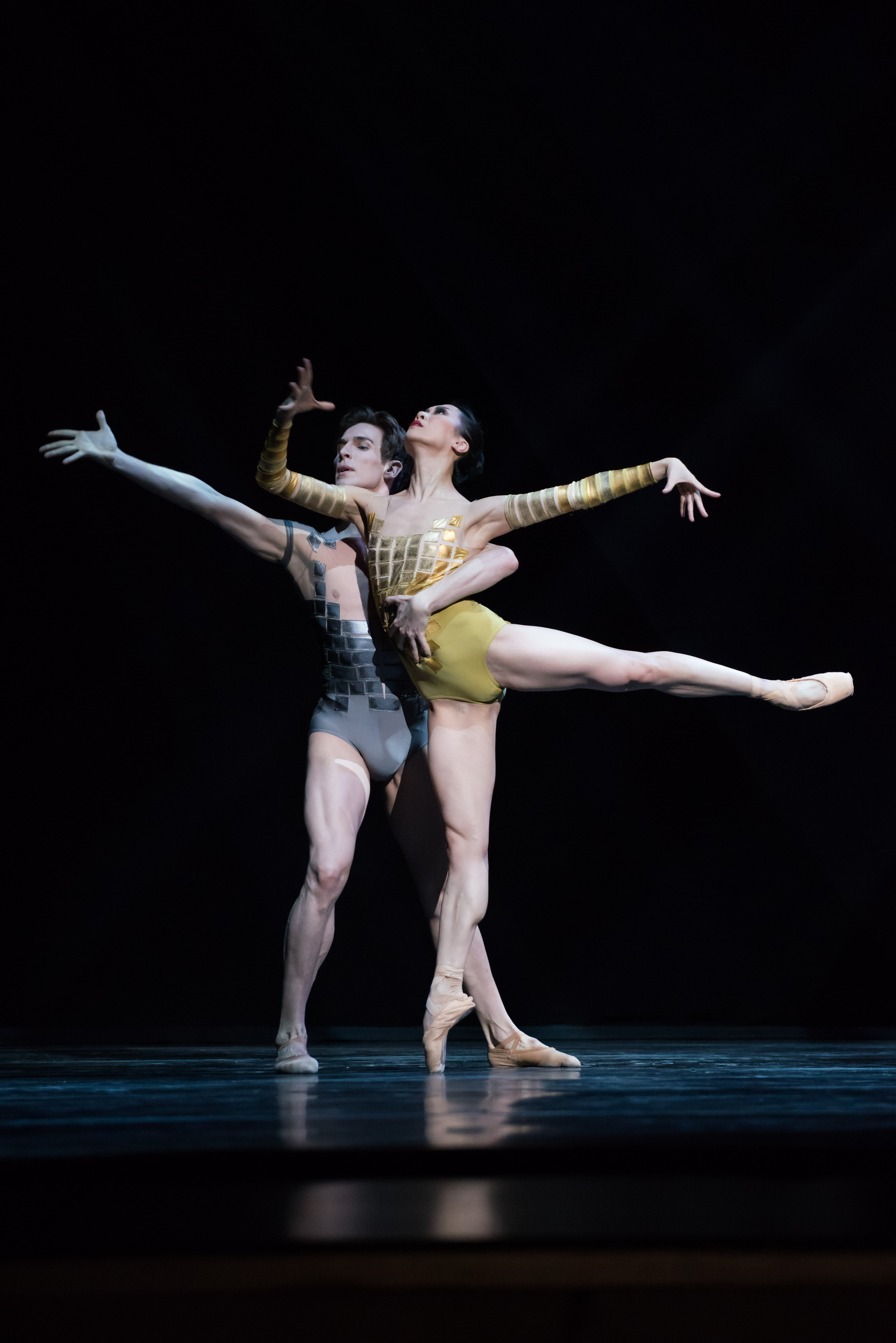 National Ballet of Canada's principal dancers Evan McKie and Xiao Nan Yu. Taken at the National Arts Centre in Ottawa as part of the National Ballet of Canada's co-producton of Encount3rs, April 20th 2017.